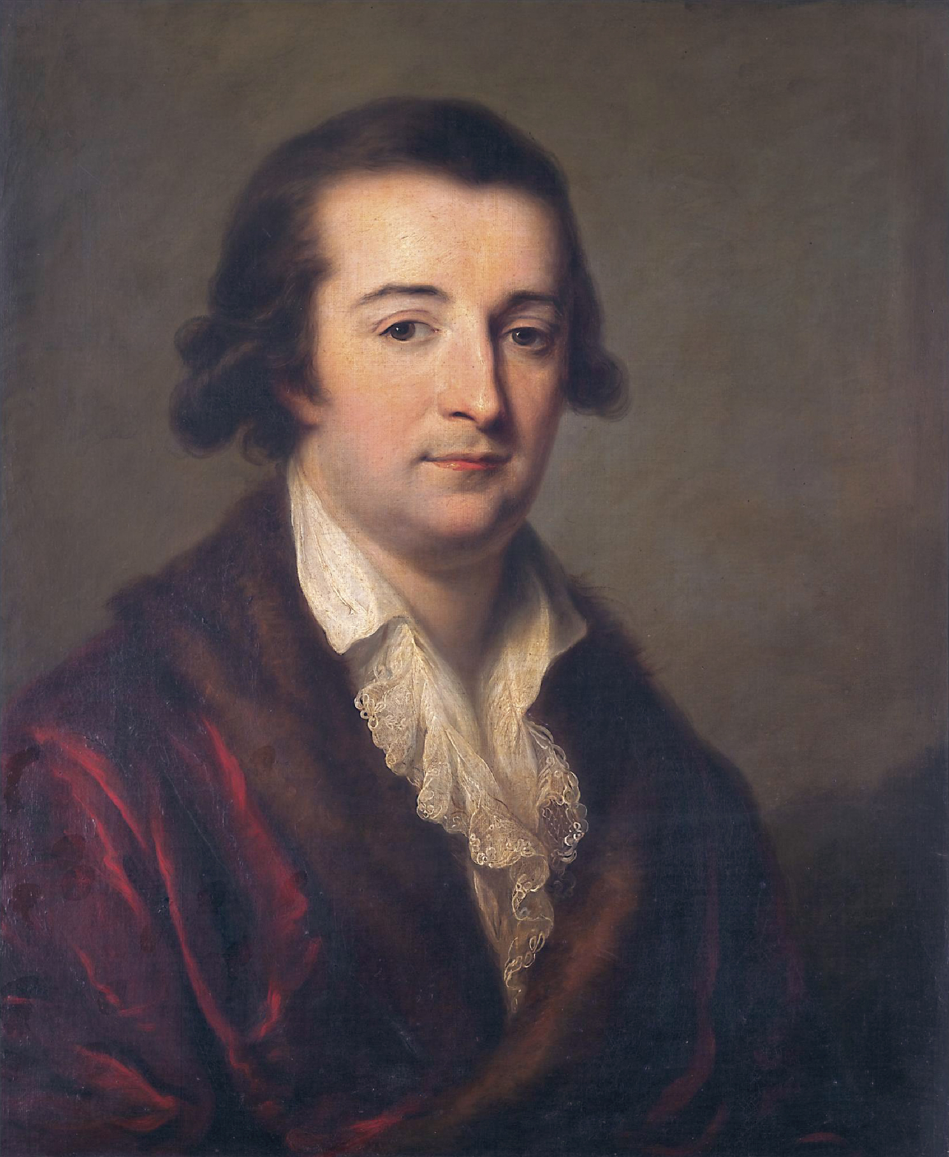 Angelika Kauffmann: Il principe Baldassarre II Odescalchi (1748-1810) oil on canvas 61 x 50.5 cm December 1784 son of Duca di Bracciano Livio Odascalchi and Vittoria Corsini